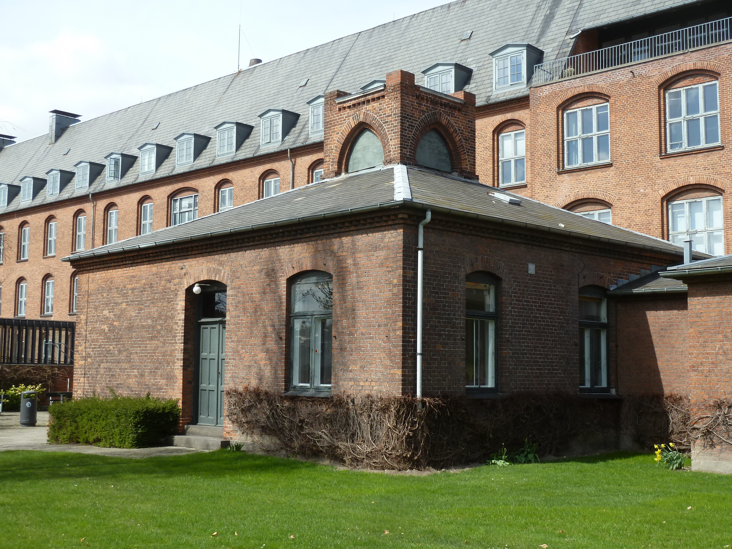 Diakonissestiftelsen in the Frederiksberg district of Copenhagen, Denmark